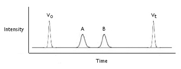 A generic example of what a GPC separation would look like